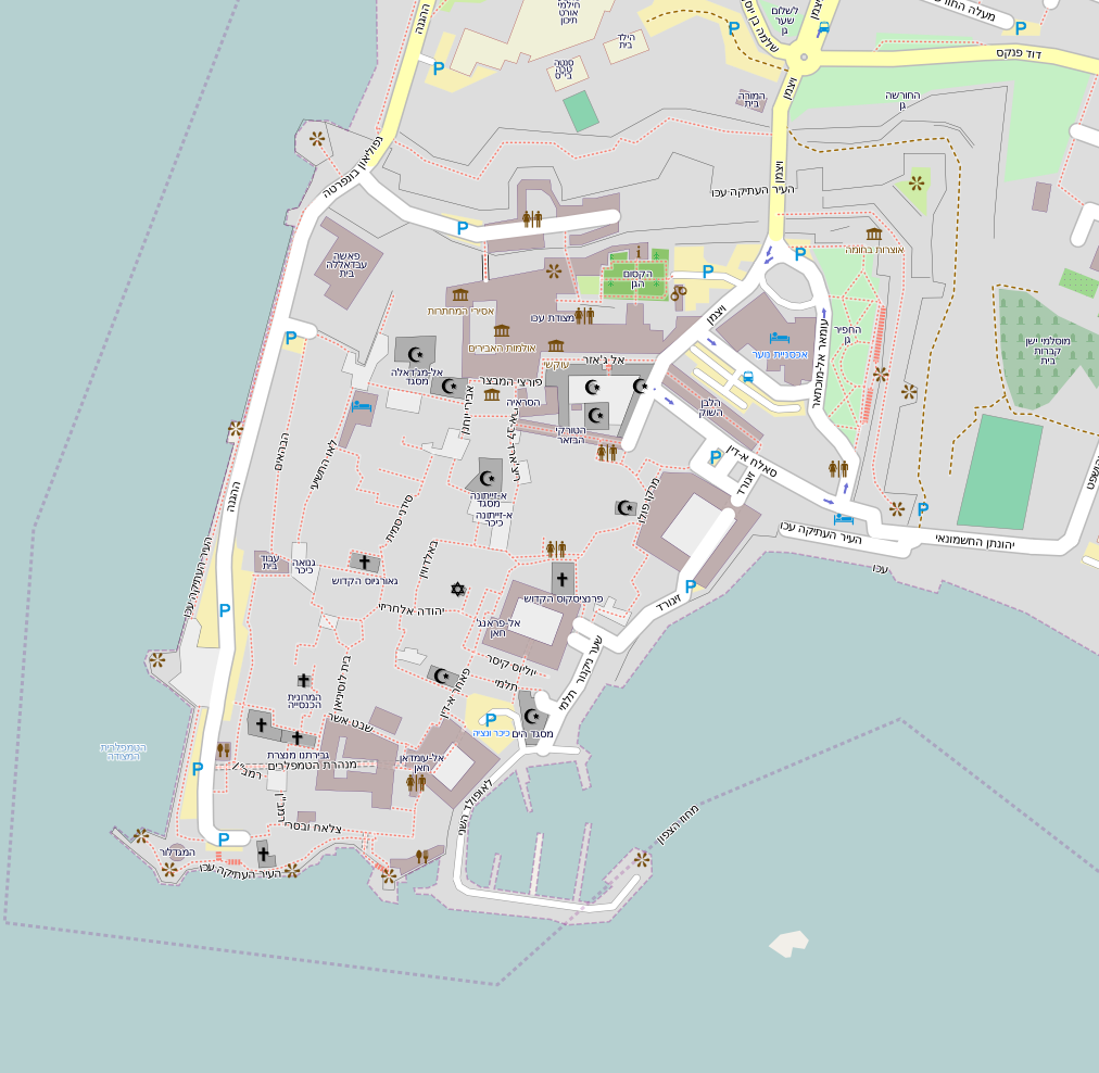 This map of The old city of Akko. Acre, Israel was created from OpenStreetMap project data, collected by the community. This map may be incomplete, and may contain errors. Don't rely solely on it for navigation.